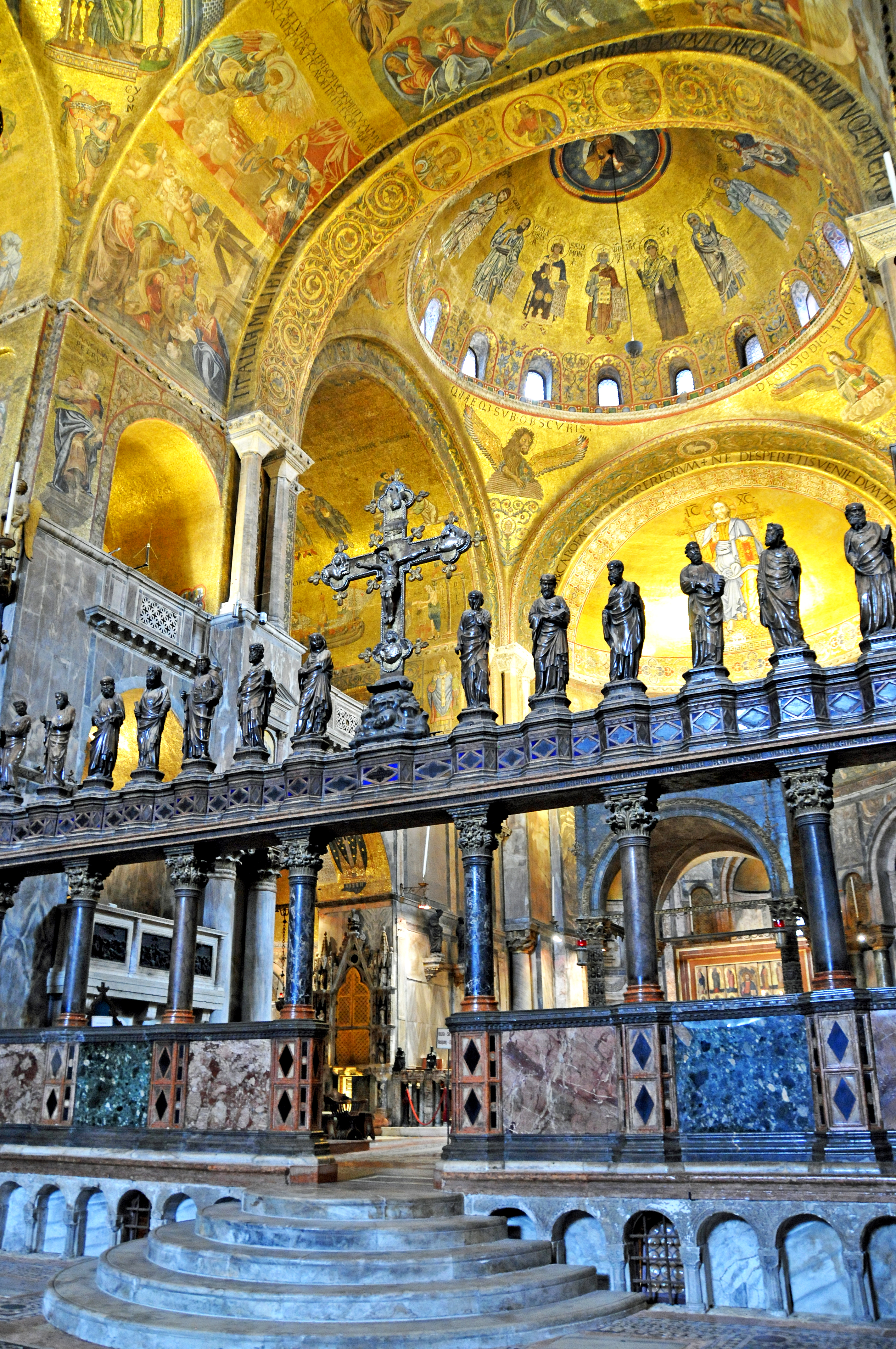 Under the Ascension Dome is the rood screen topped with 14 saints, it separates the congregation from the high altar. The main altar has the remains of the evangelist Mark. Above the altar is the masterpiece, the Golden Altar Screen.